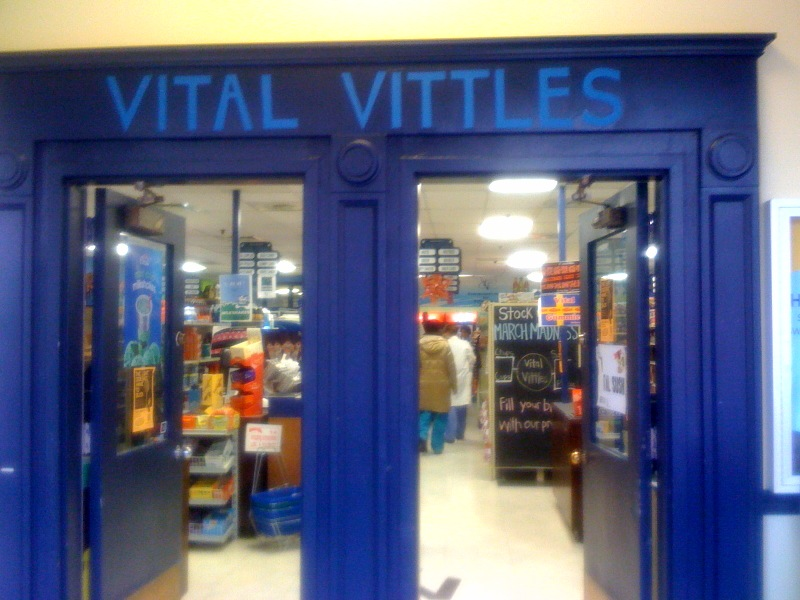 Vital Vittles convenience shop in Georgetown University's Leavey Center